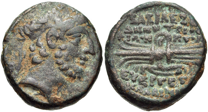 200, Lot: 170. Estimate $100. Sold for $132. This amount does not include the buyer’s fee. SELEUKID KINGS of SYRIA. Demetrios III Eukairos. 97/6-88/7 BC. Æ 18mm (8.01 g, 12h). Seleukia in Pieria mint. Diademed head right / Winged thunderbolt on filleted pulvinar (throne); K to right. SC 2447; SNG Spaer 2824. VF, green patina, minor deposits. From the J.S. Wagner Collection.